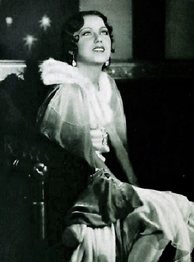 Fay Wray in "The Wedding March"